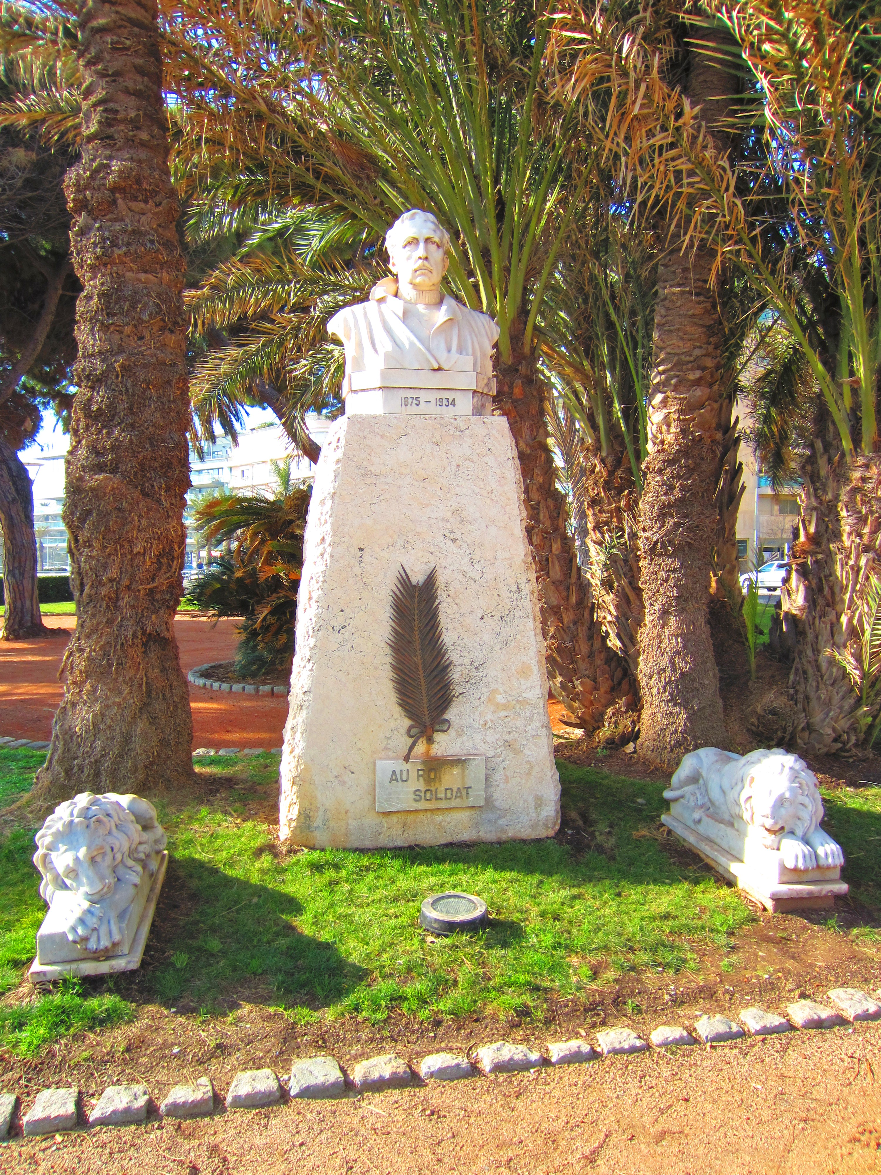 Statue albert 1er Antibes